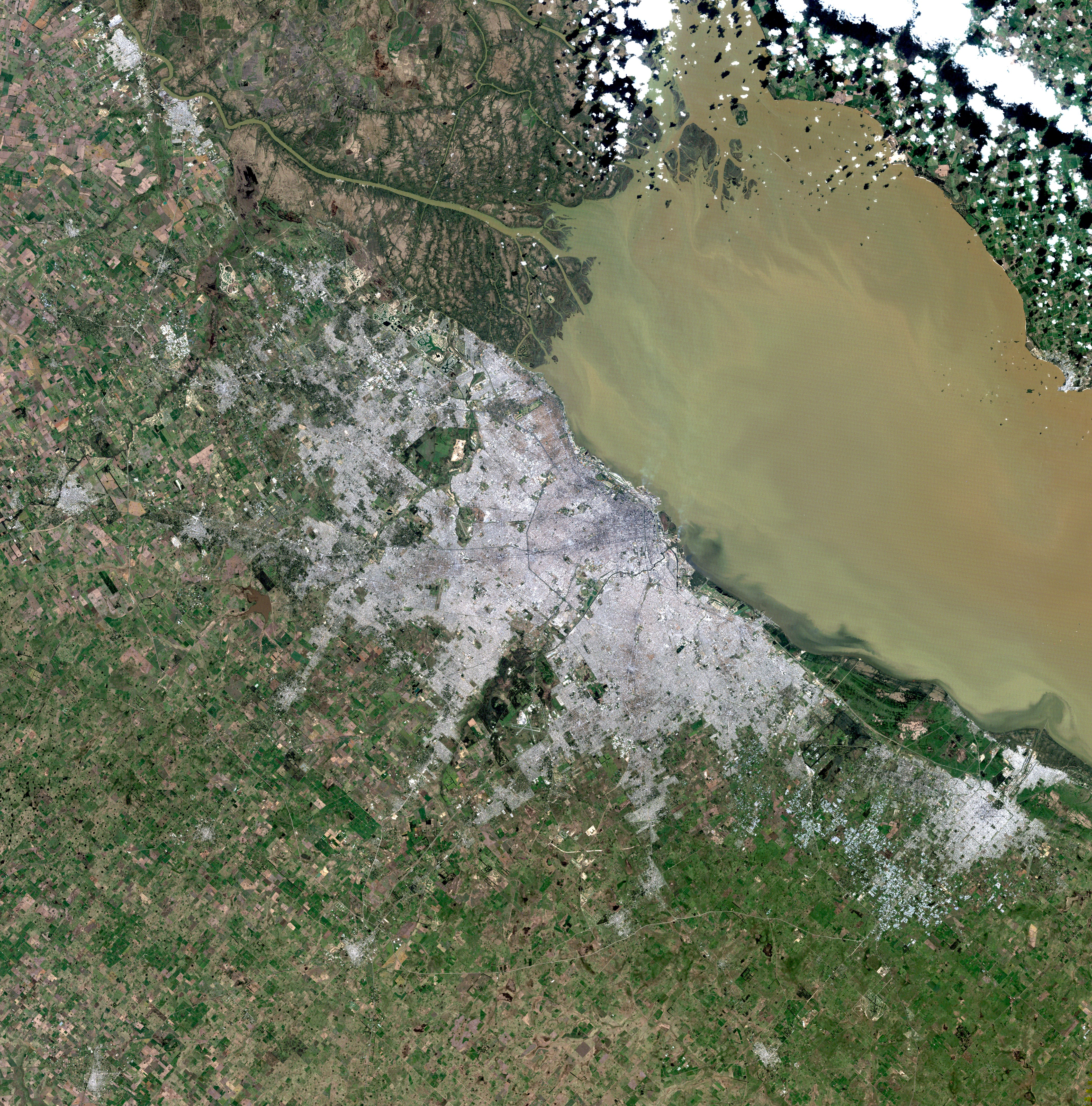 Buenos Aires, city and vicinities, satellite image LandSat-5, 2011-08-21, near natural colors, 30 m resolution